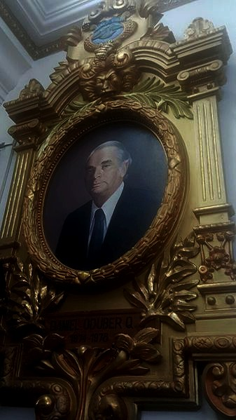 Retrato de Daniel Oduber, salón de expresidentes